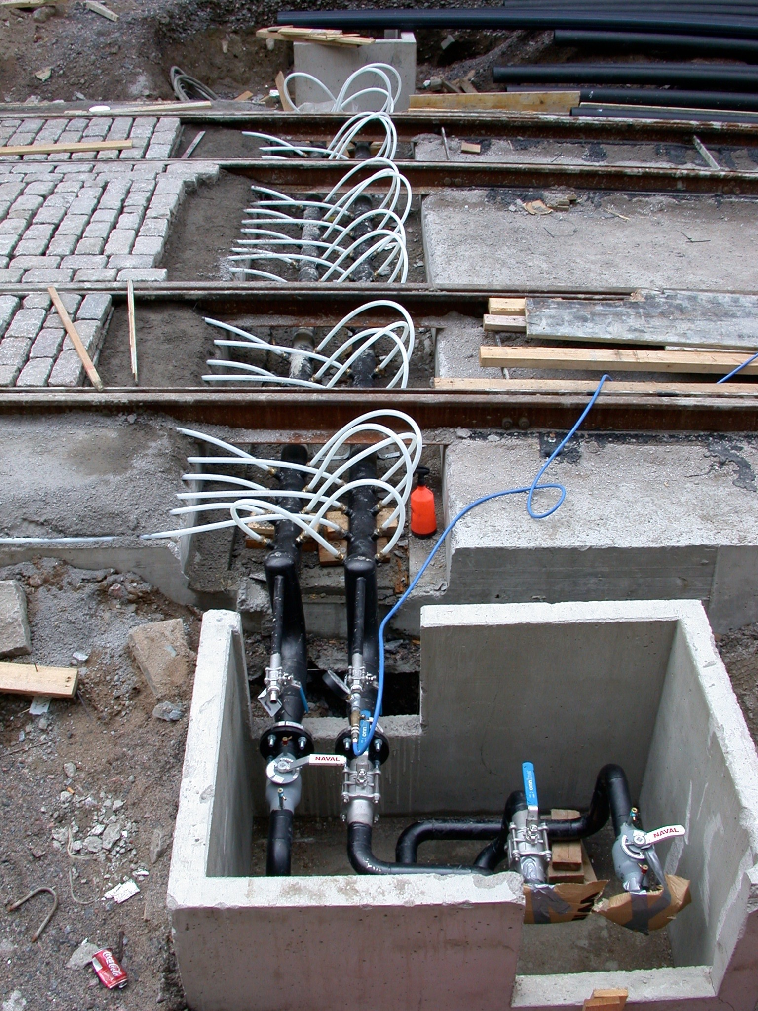 heated water snow melting of train tracks in Helsinki.